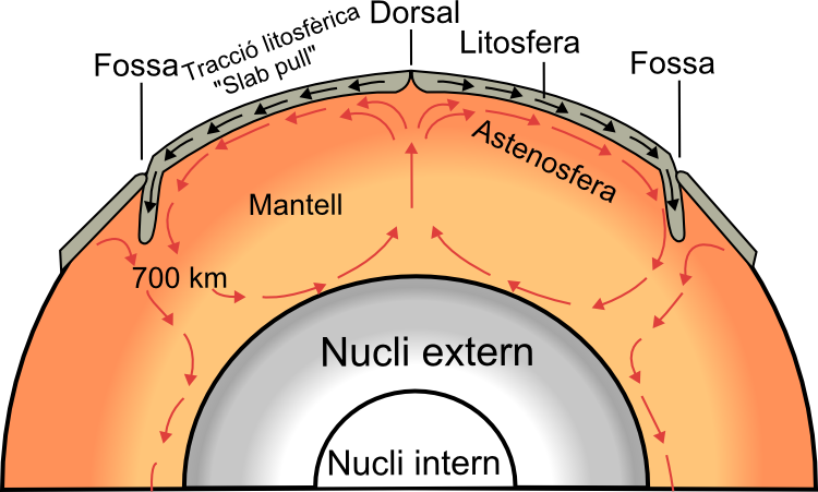 Shows how ocean ridges are formed, lithosphere subducted at trenches; good for understanding plate tectonics.